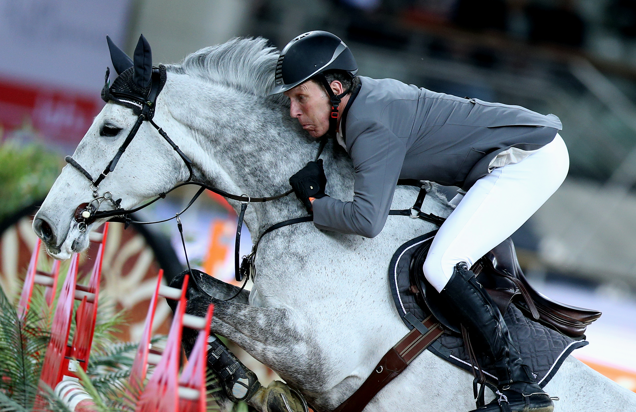 Germany's Ludger Beerbaum competes in the 2014 CHI Al Shaqab event in Doha. Pic by Vinod Divakaran